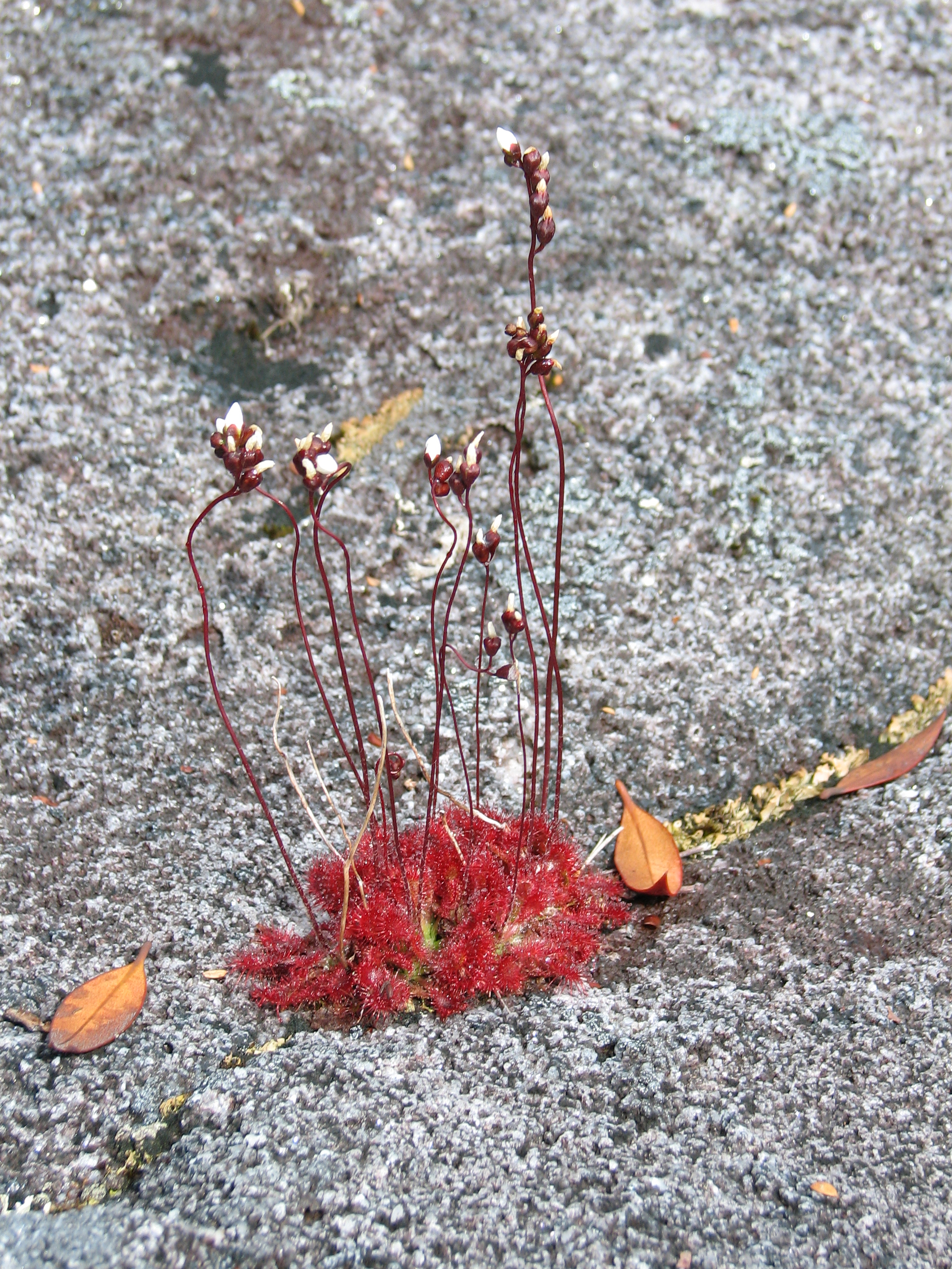 A flowering Drosera spatulata growing in a crack in sandstone in the upper Waimangaroa River valley in New Zealand.